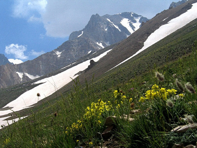 Takhte Soleyman Peak (4659 m, 15285 ft) from Sarchal Shelter. Sub-peak 4500 m to the left (east).